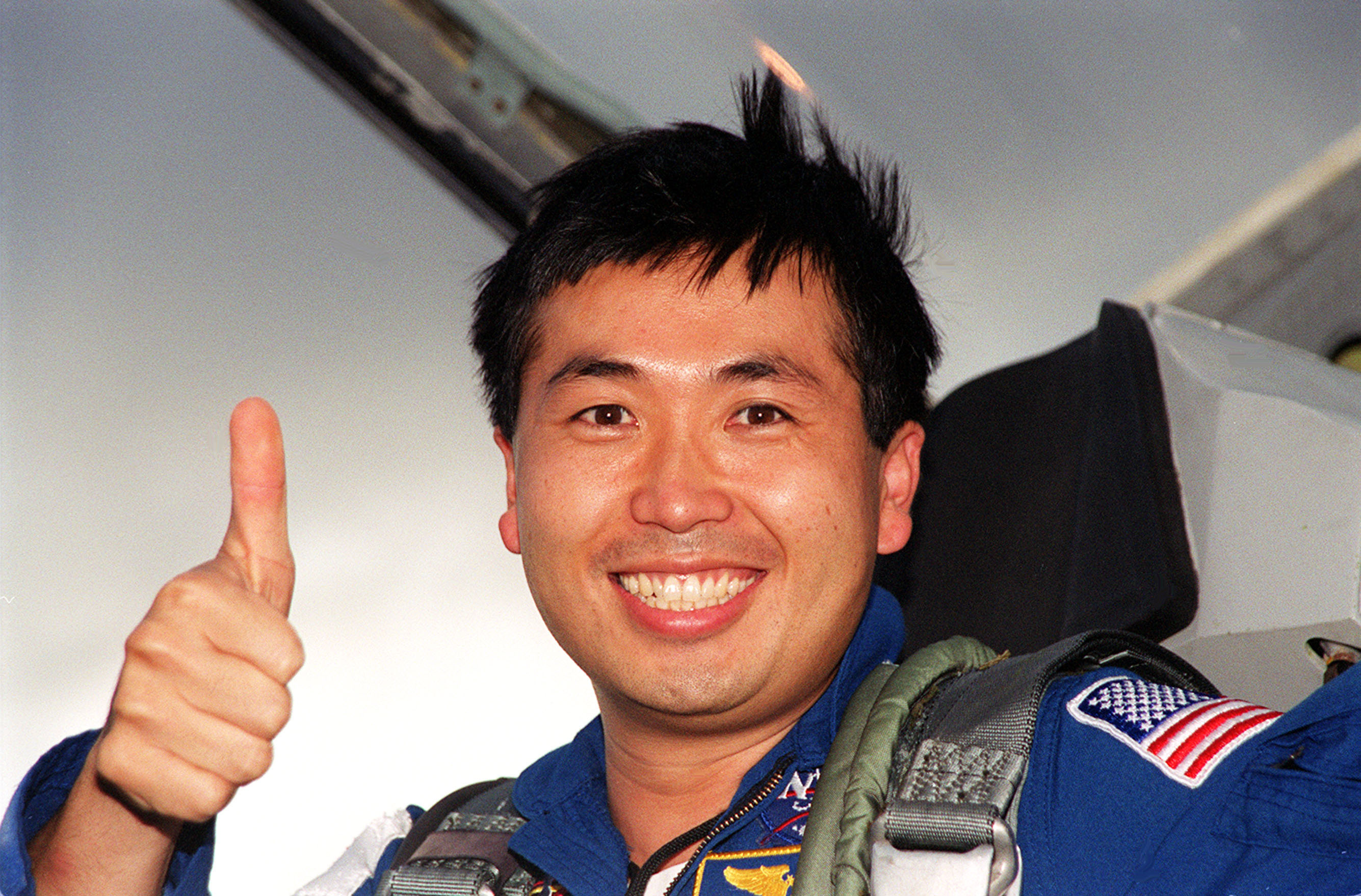 JAXA astronaut Koichi Wakata giving a thumbs-up as he arrives at Kennedy Space Center for the launch of the STS-92 mission in October 2000, on which he served as a Mission Specialist.